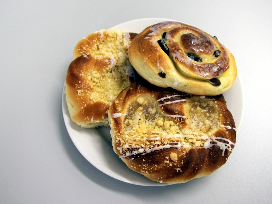 Drożdżówka (yeast-cake), my favorite Polish sweet for breakfast...